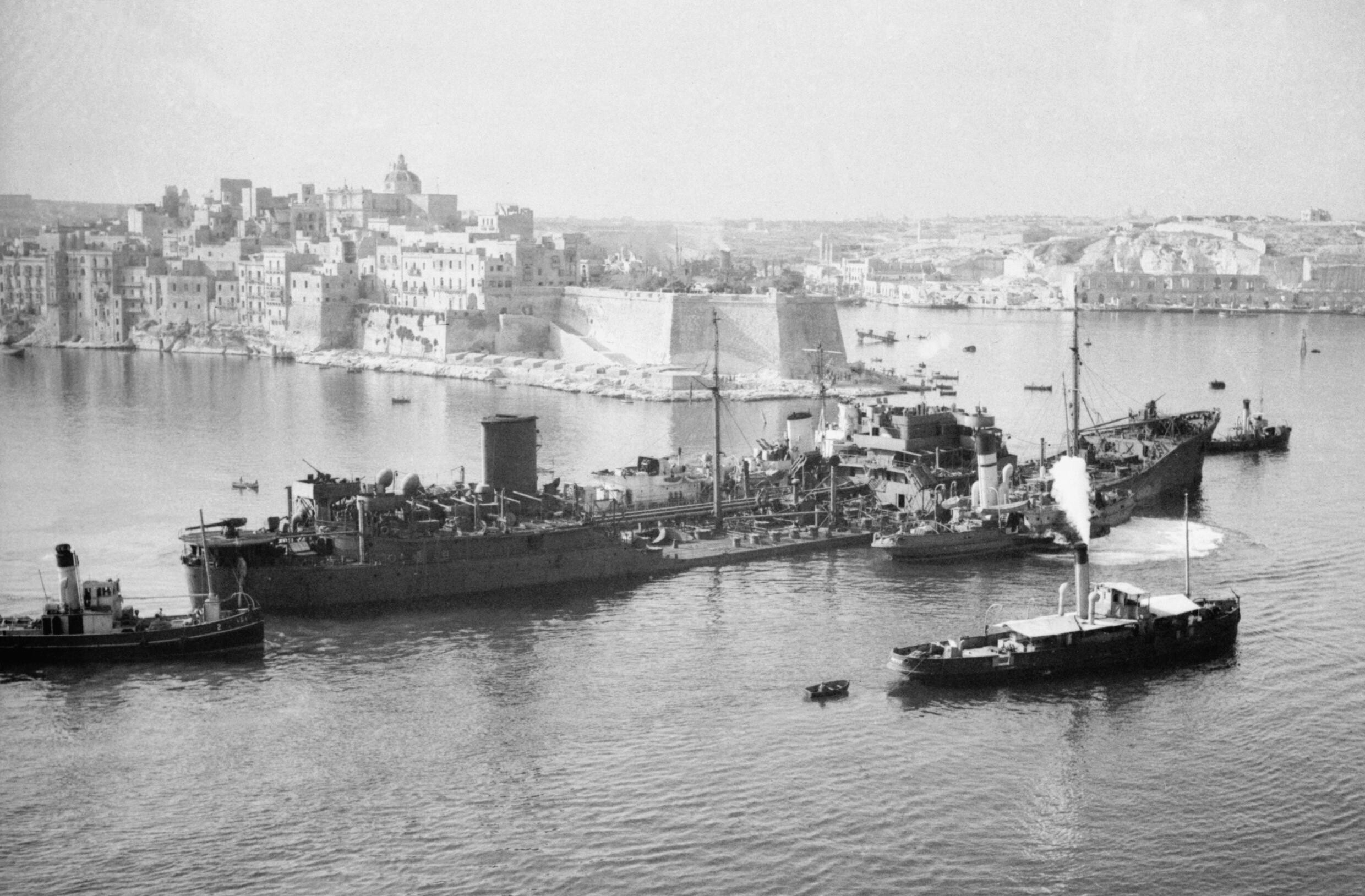 Operation Pedestal and the Siege of Malta, August 1942 The damaged tanker OHIO, supported by Royal Navy destroyers, approaches Malta after an epic voyage across the Mediterranean as part of convoy WS21S (Operation Pedestal) to deliver fuel and other vital supplies to the besieged island. OHIO's back was broken and her engines failed during heavy German and Italian attacks. Because of the vital importance of her cargo (10,000 tons of fuel which would enable the aircraft and submarines based at Malta to return to the offensive), she could not be abandoned. In a highly unusual manoeuvre, two destroyers supported her to provide buoyancy and power for the remainder of the voyage. The OHIO's captain was subsequently awarded the George Cross. The OHIO itself was sunk outside the harbour after discharging its cargo.